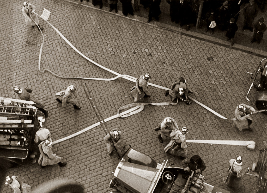 Bulgarian firemen in action